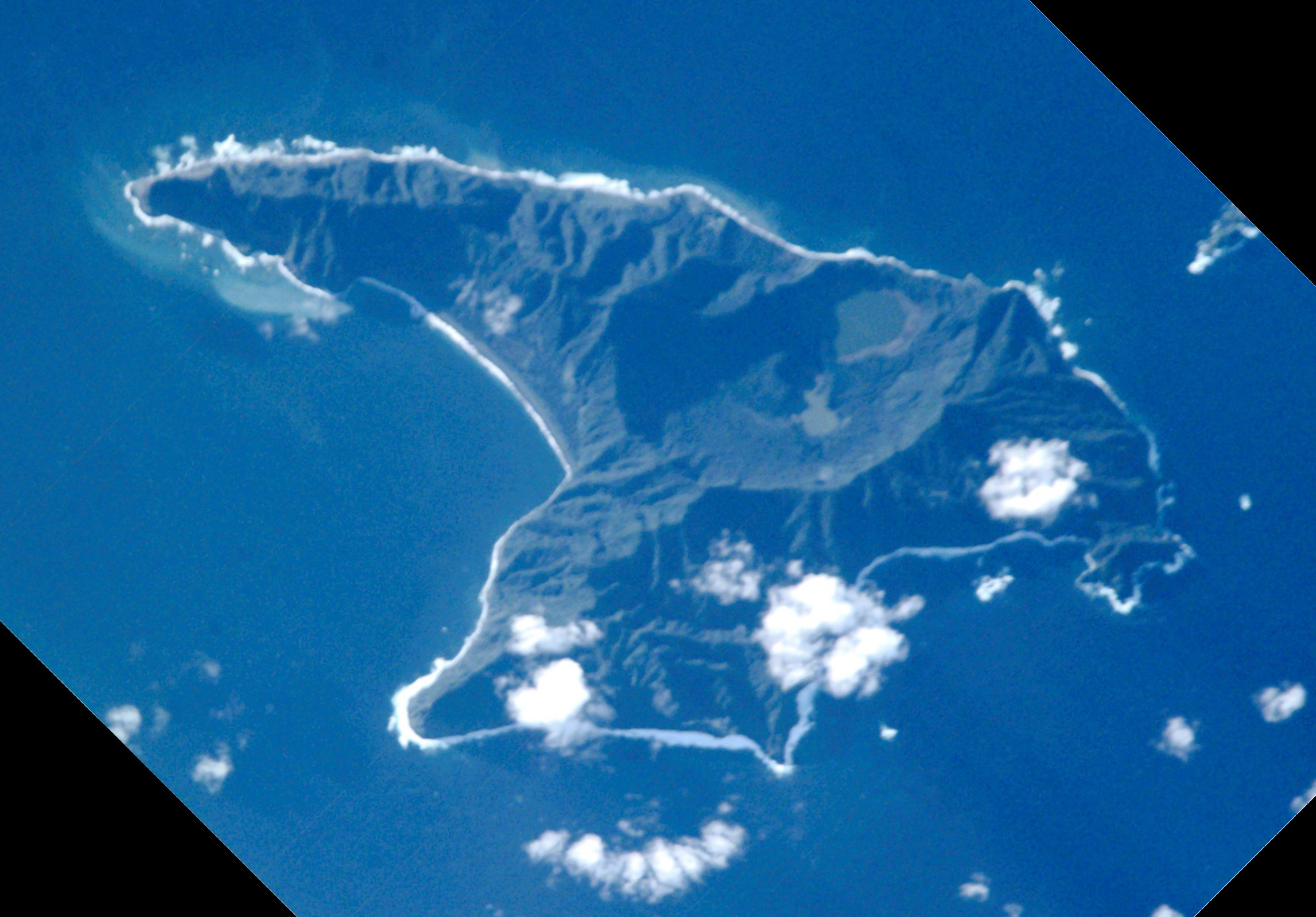 Raoul Island in the Kermadec Islands as seen from the International Space Station